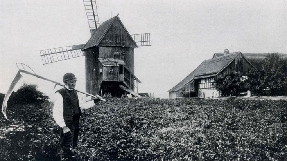 Windmill in Plakowice and its owner - Knappe